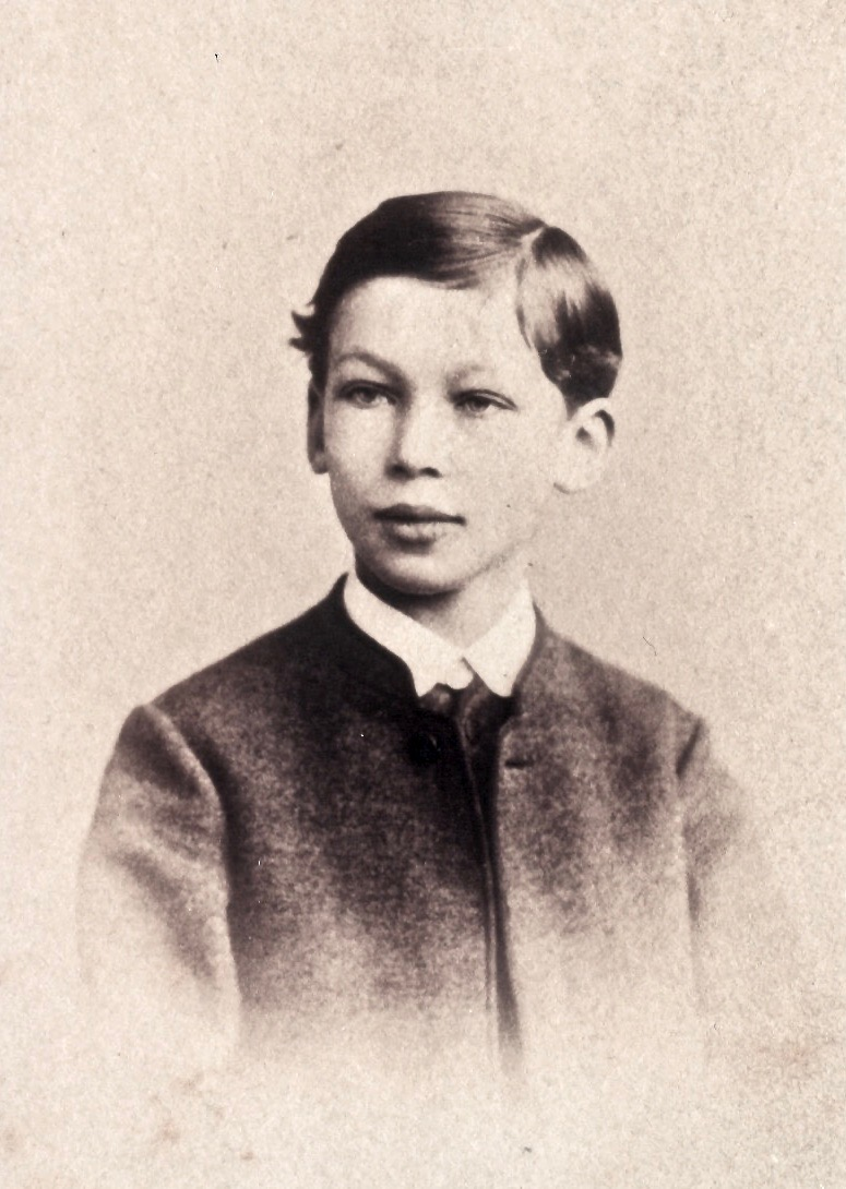 Curt Abel (1860–1938), later known as Curt Abel-Musgrave, as pupil in Berlin 1871.